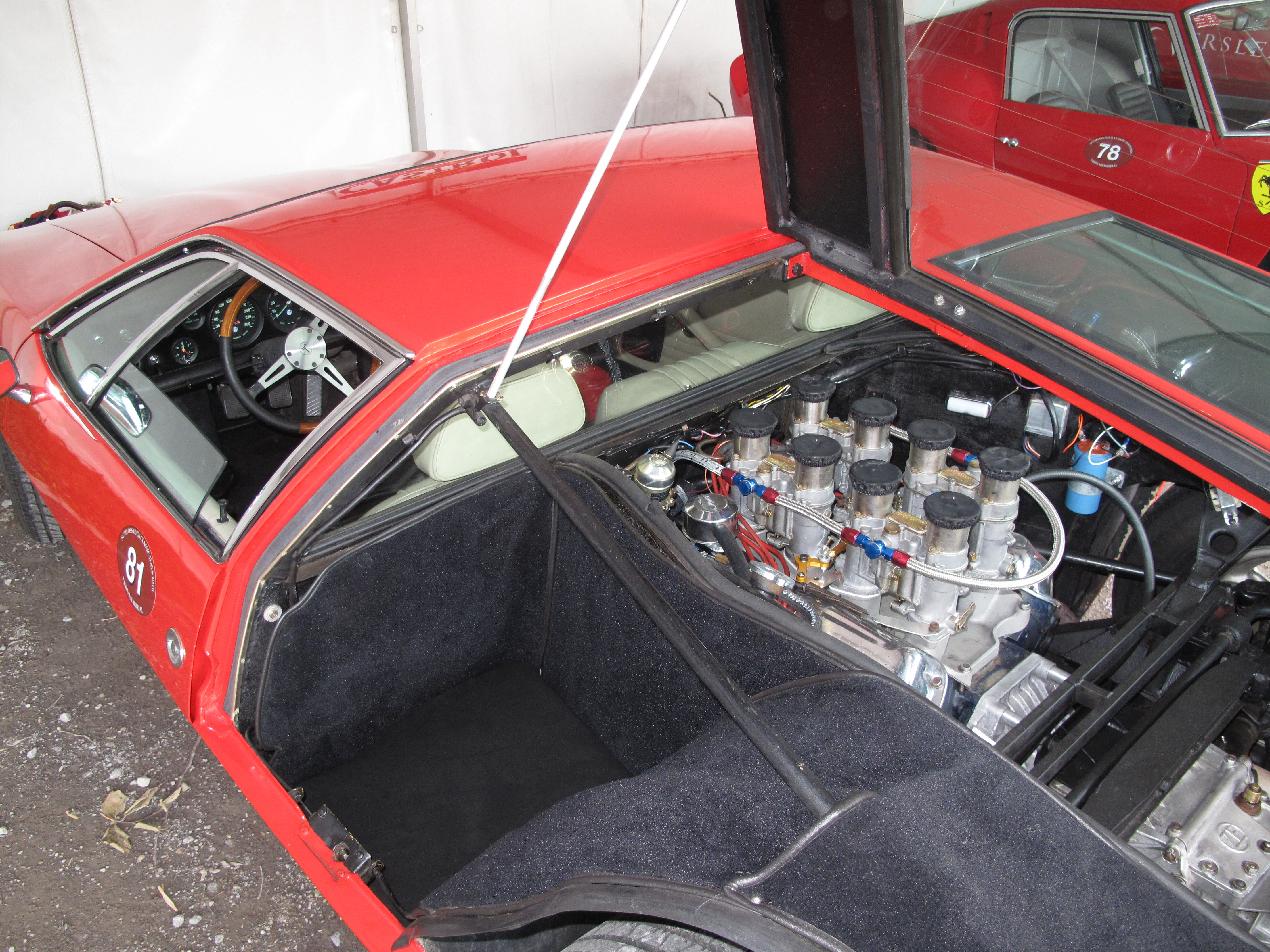 De Tomaso Mangusta rear view with its divided tailgate and the V8 engine